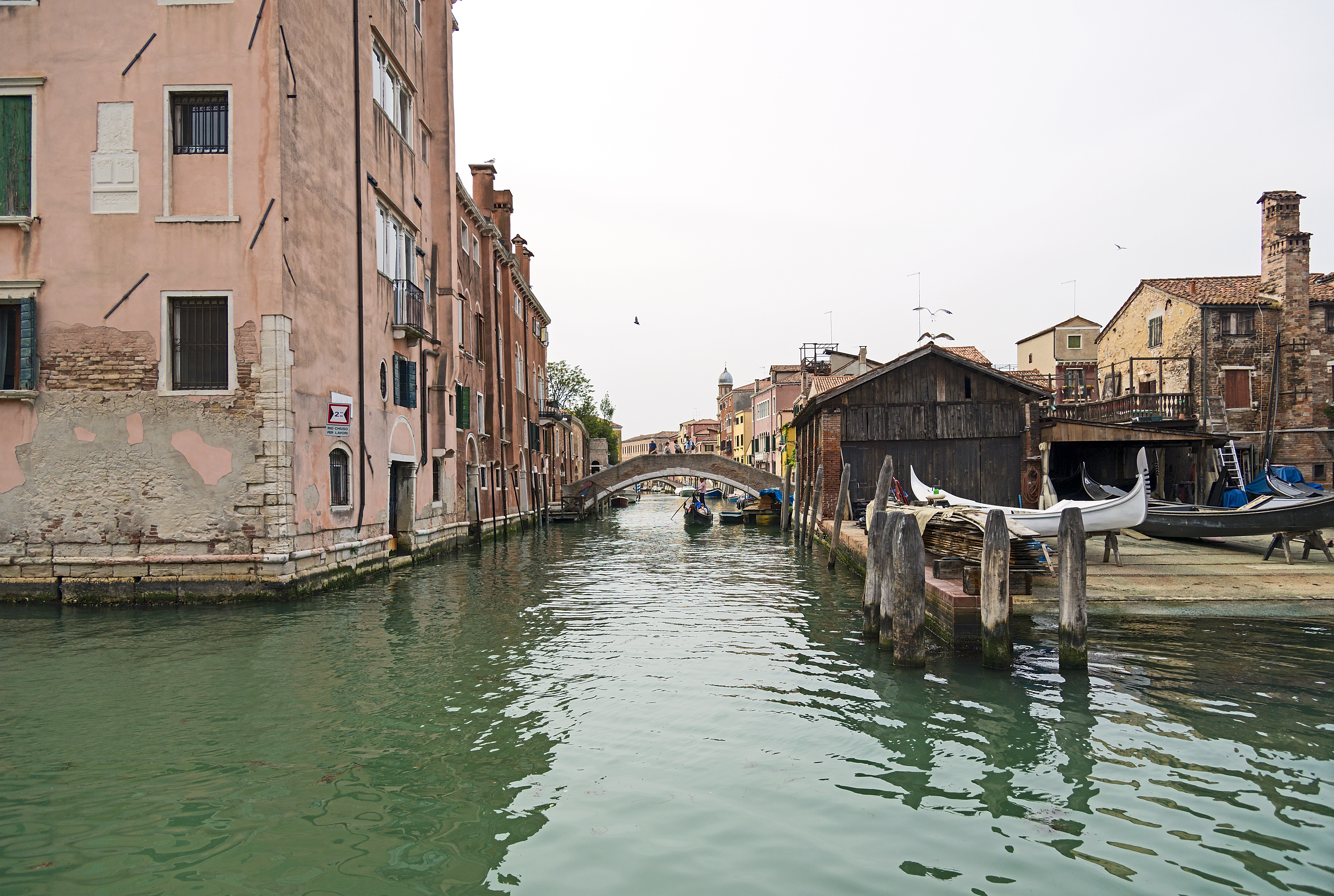 Rio degli Ognissanti Venice .